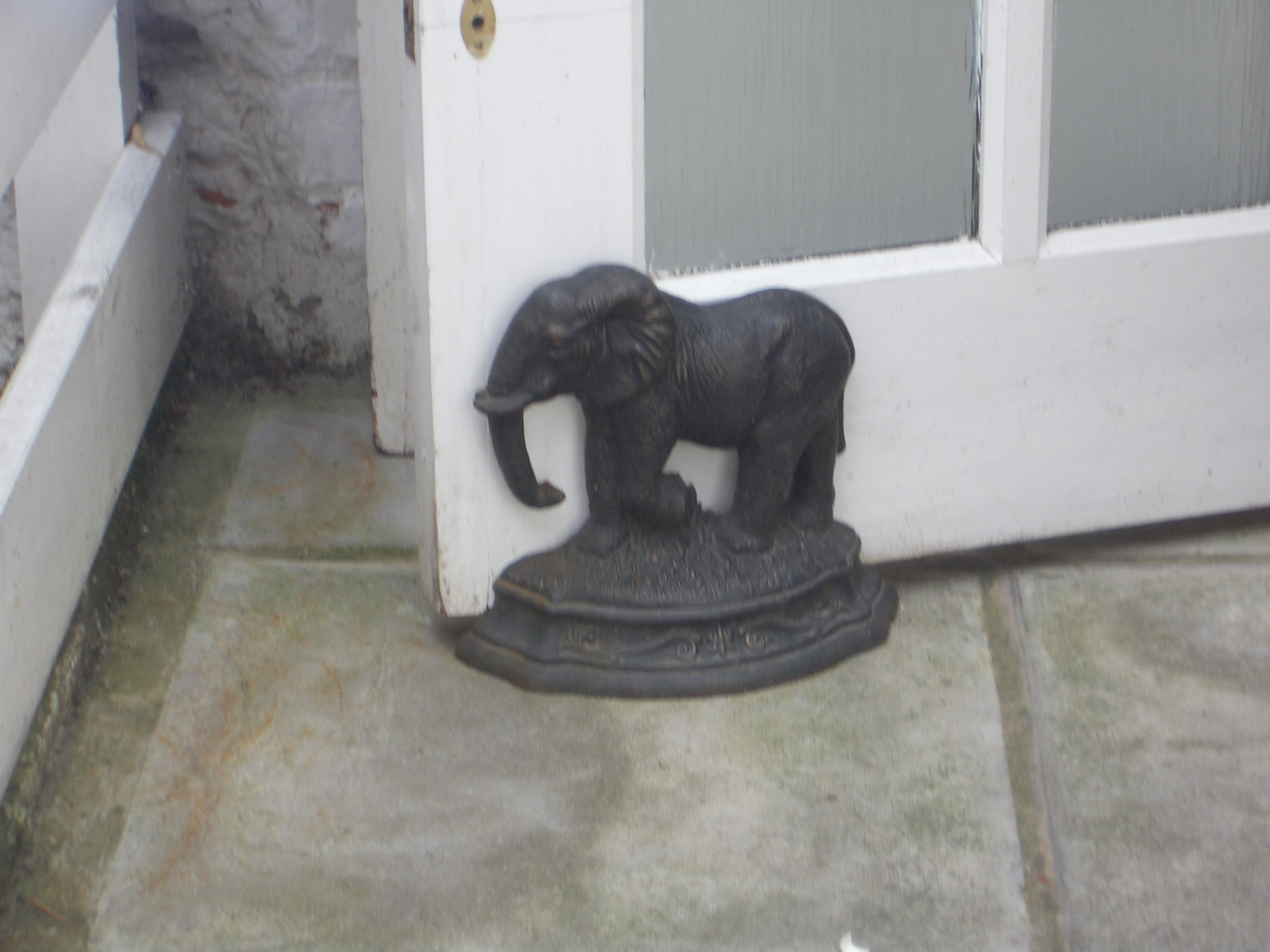 Elephant in the doorway - doorstop